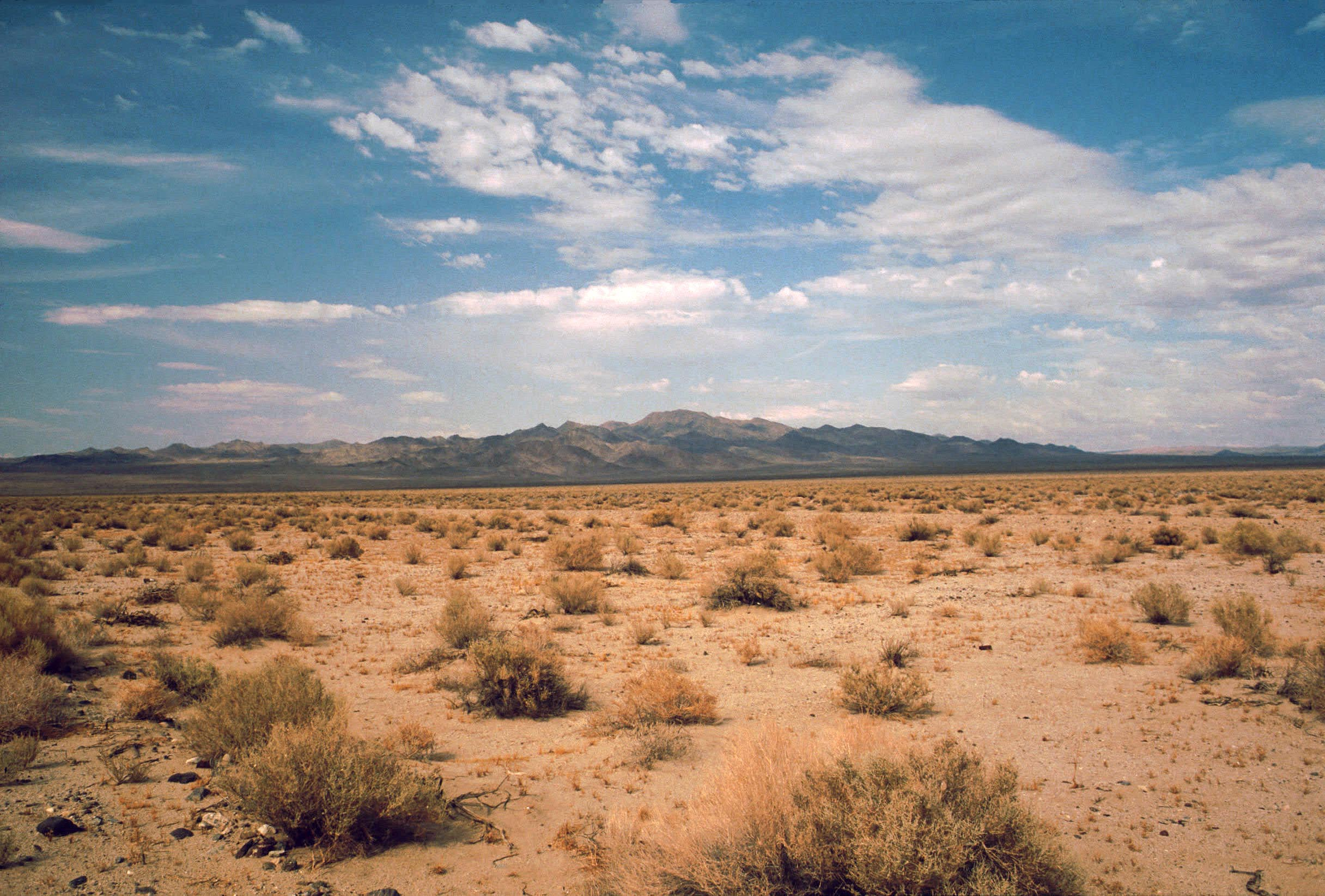 Death Valley,Desert,incoming near Shoshones